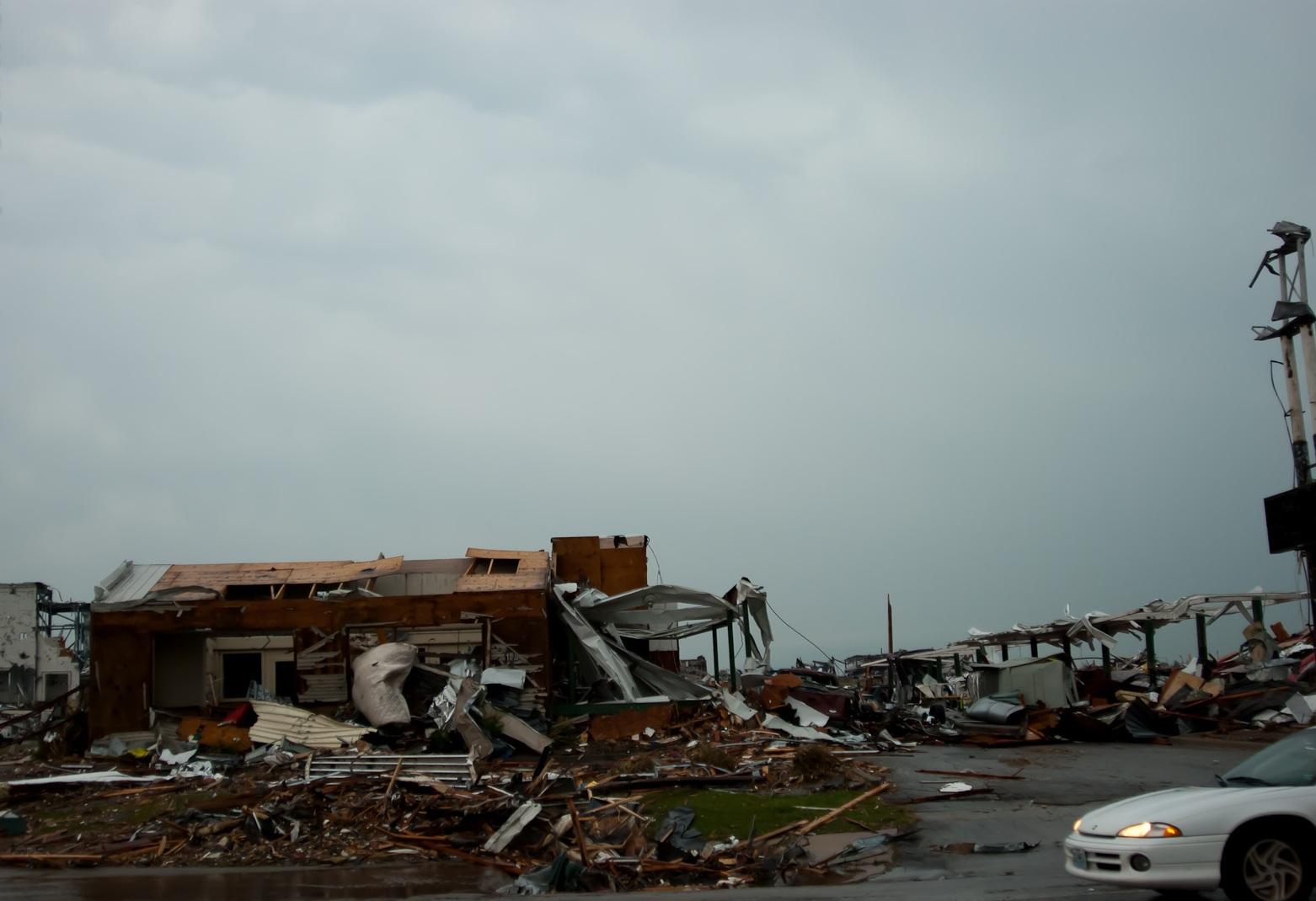 Joplin, MO - Rangeline Tornado Damage